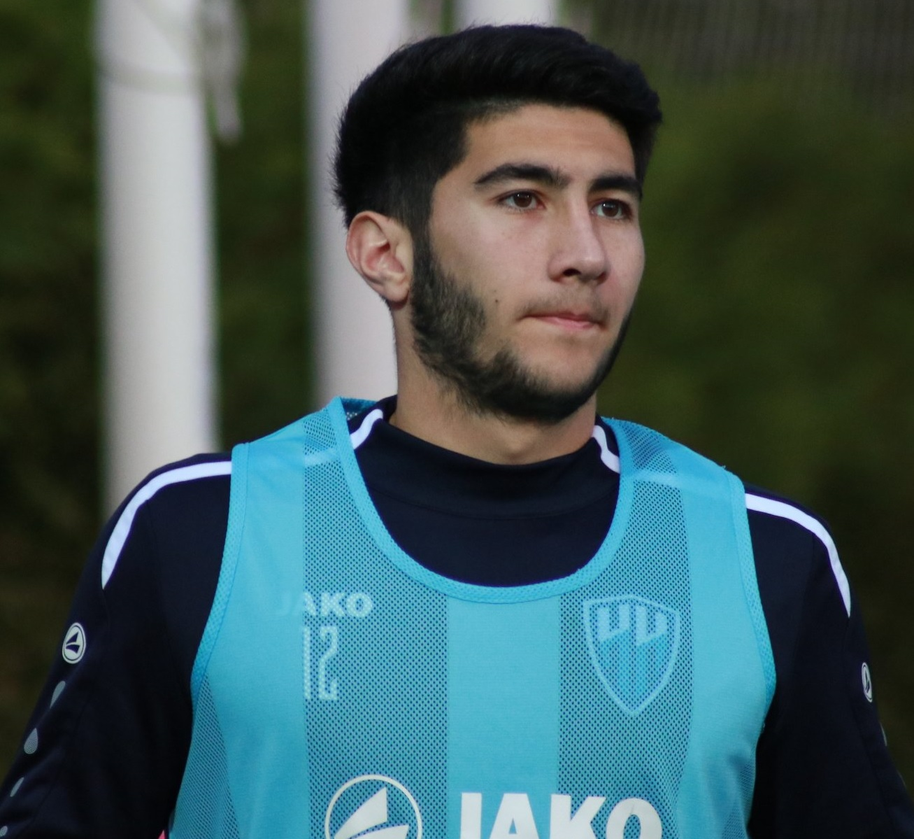 Aykhan Guseynov with FC Nizhny Novgorod during the game against FC Krasnodar-2.